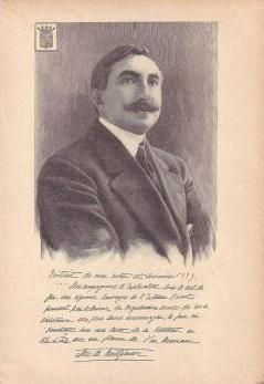 Portrait of Ferdinand of Orléans, duc de Montpensier (1884-1924)